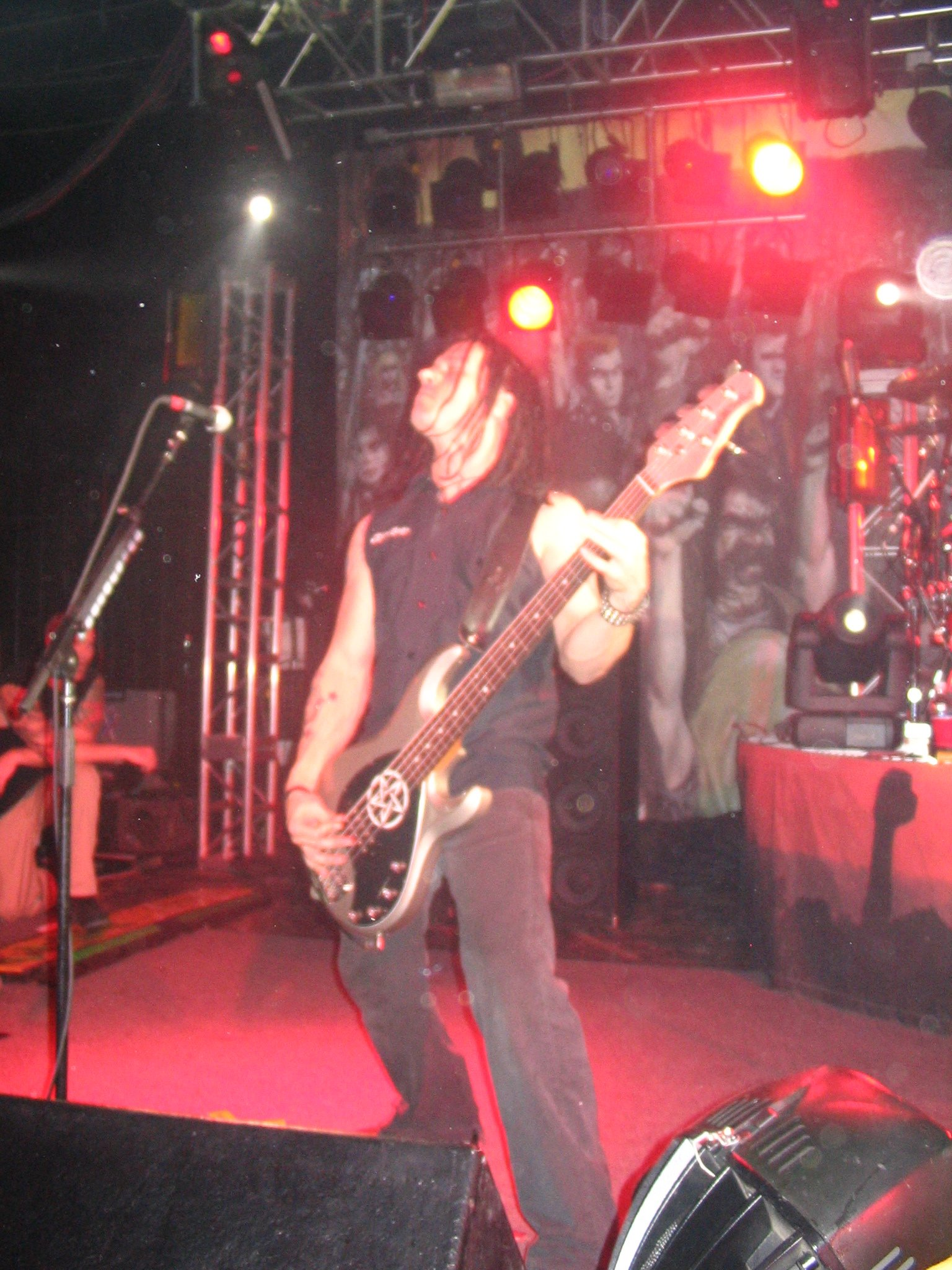 Picture of John Moyer, taken on December 8, 2005 at Starland ballroom.